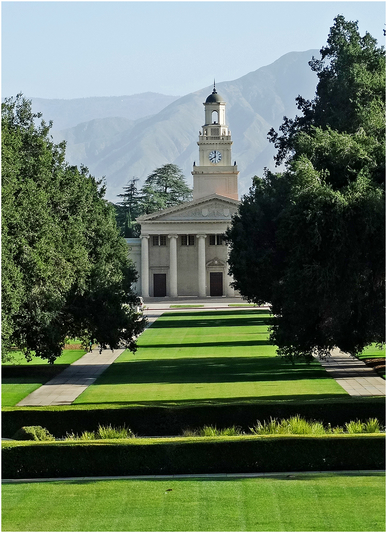 (1 in a multiple picture set) Our university has a very pretty campus. This green is almost a block long, covered with oak trees and crowned with the Memorial Chapel.